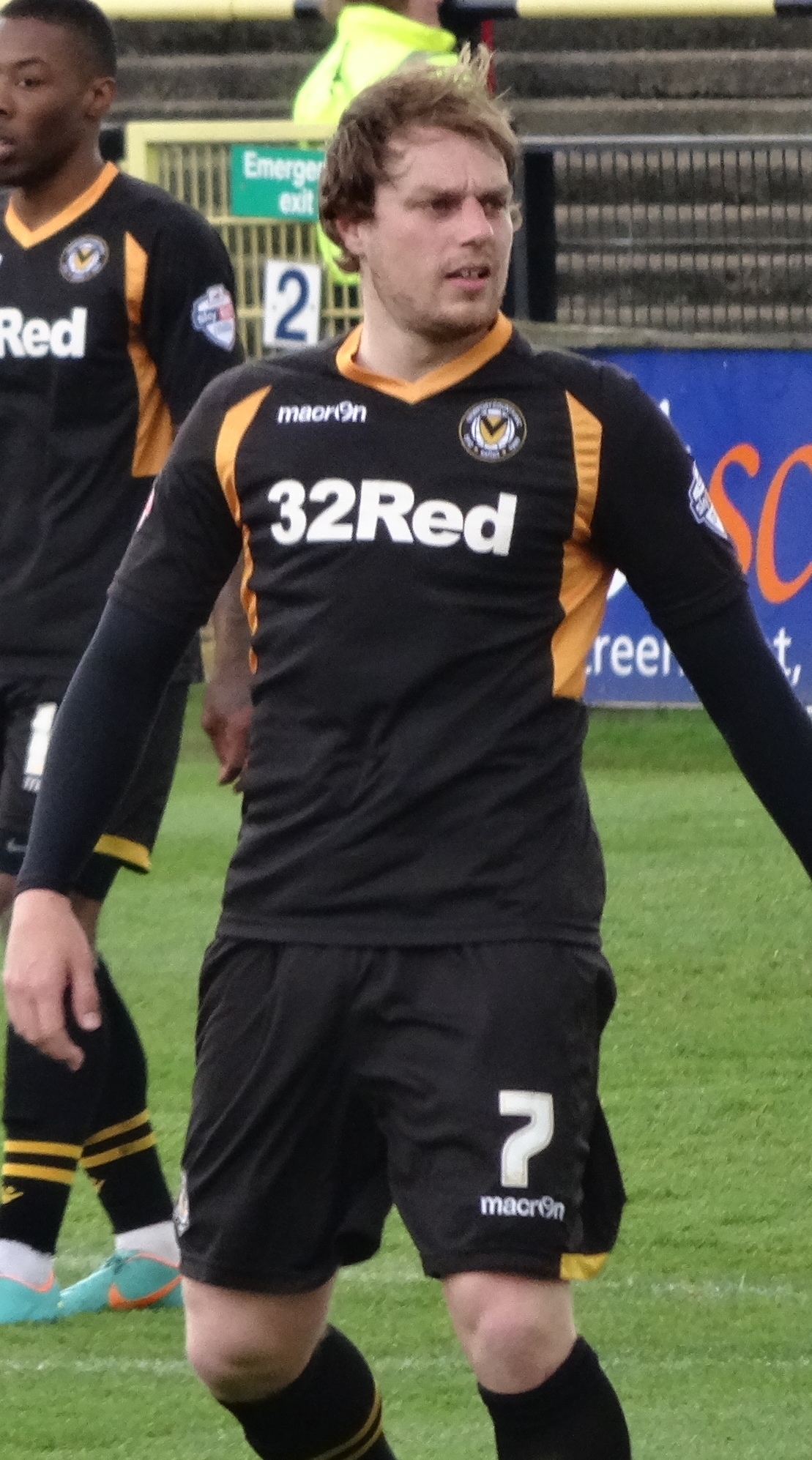 Adam Chapman playing for Newport County against York City at Bootham Crescent, York on 26 April 2014